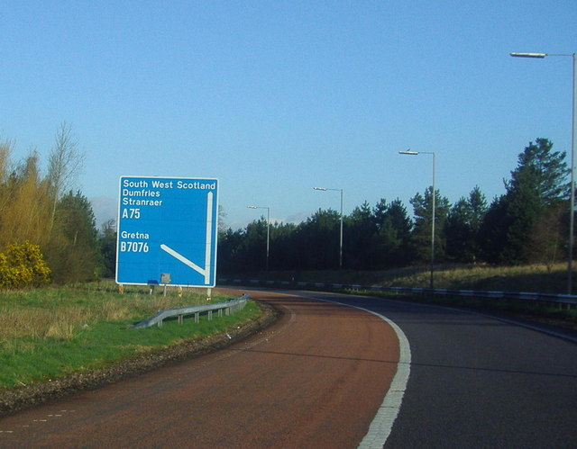 Motorway sign on slip road. This sign is on the slip road between the M74 and the A75.